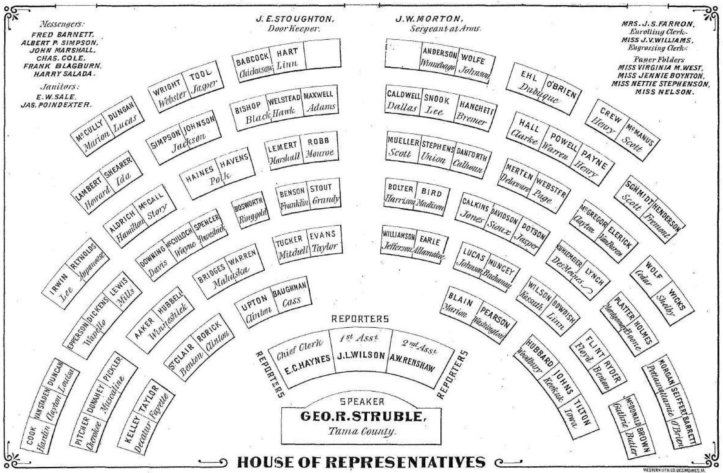 Titled "Manual of the State of Iowa, with Rules, Practice, Committees, Etc., of the Nineteenth General Assembly, for the Year 1882.", this is the 1882 entry in the "Iowa Official Register" series of publications by the State of Iowa.